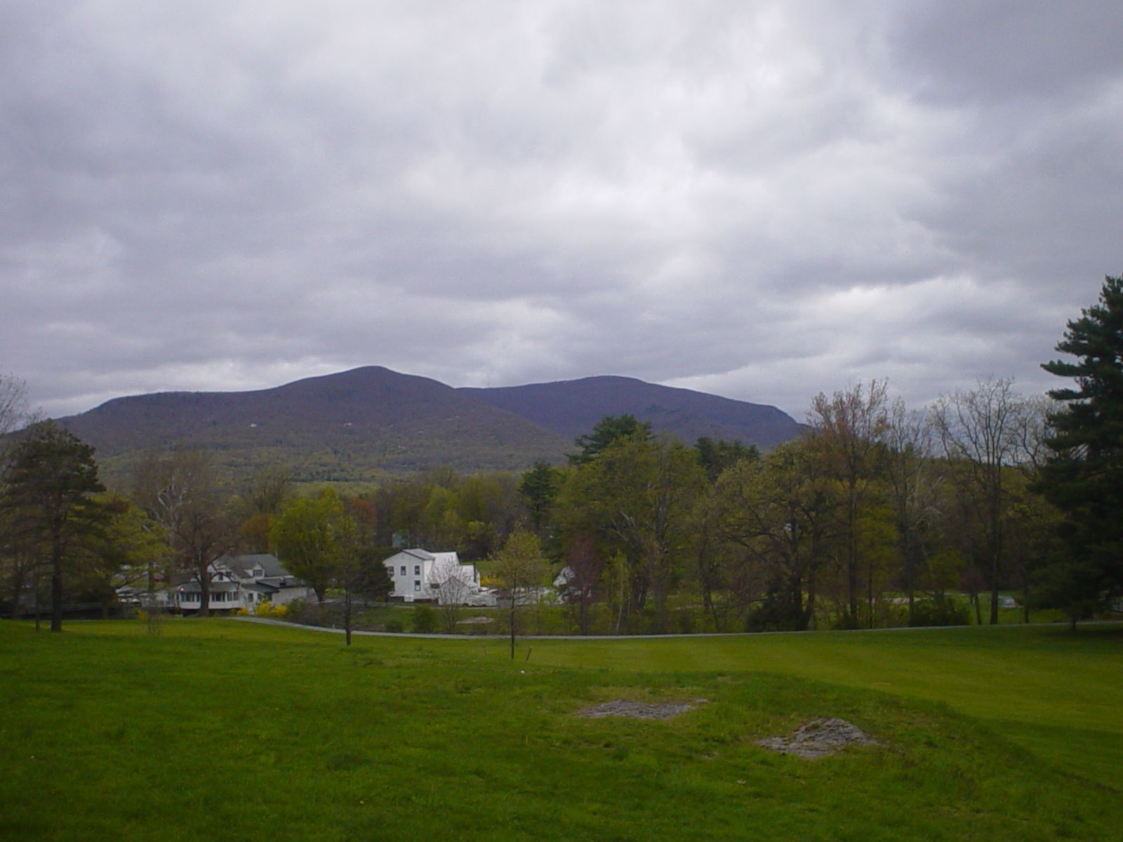 Overlook Mountain as seen looking north from New York State Route 212 in Woodstock, NY